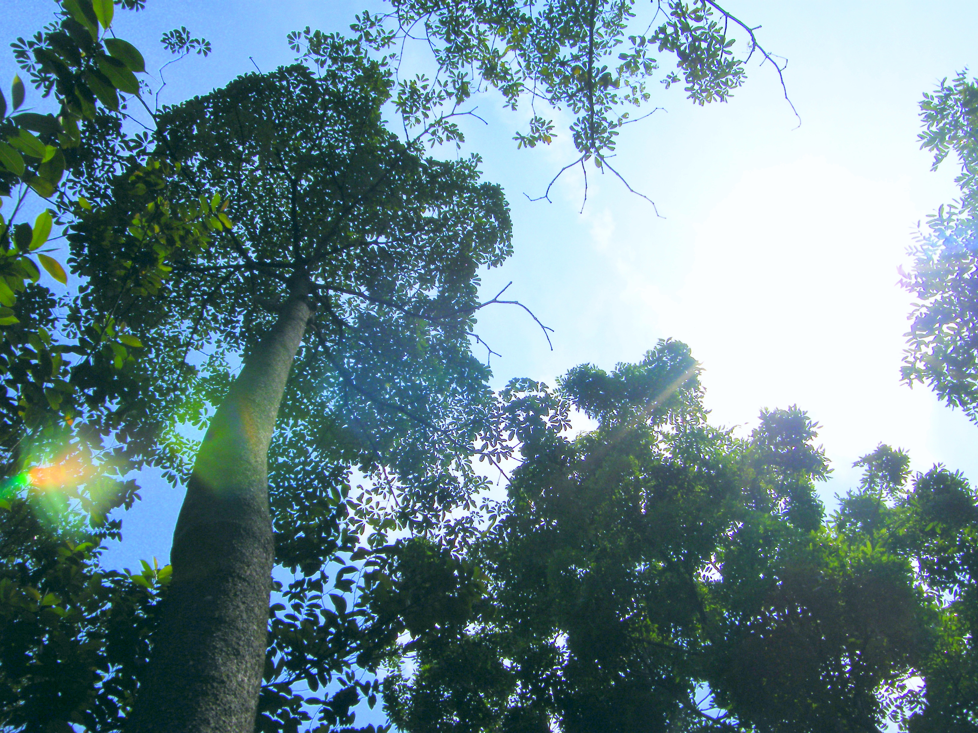 Hijau @ Hutan Bandar, JB